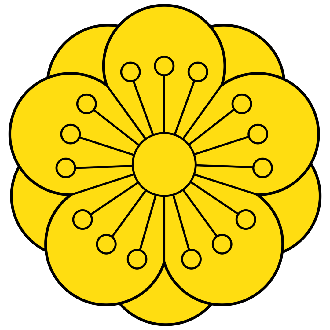 Sadonggung Ihwamun